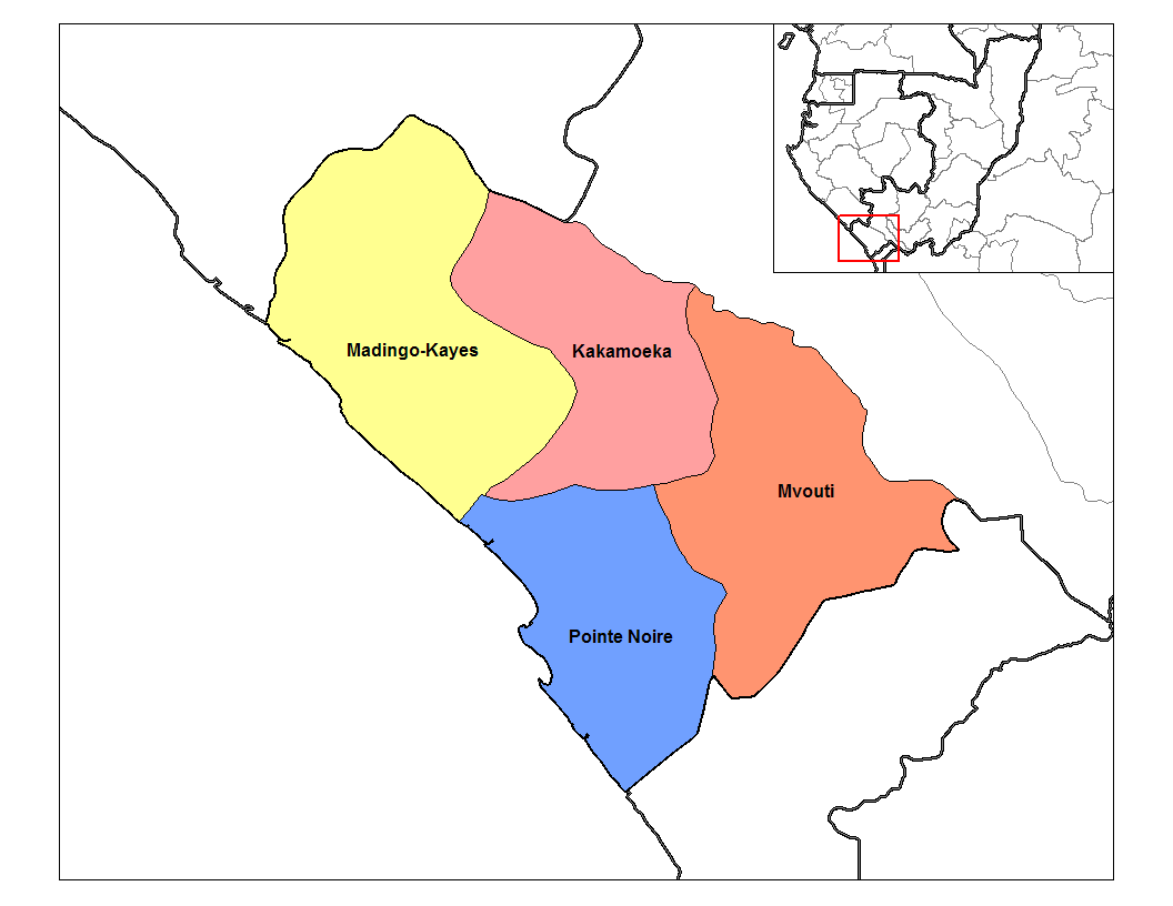 Map of the districts of Kouilou region in the Republic of the Congo. Created by Rarelibra 13:55, 12 September 2006 (UTC) for public domain use, using MapInfo Professional v8.5 and various mapping resources.